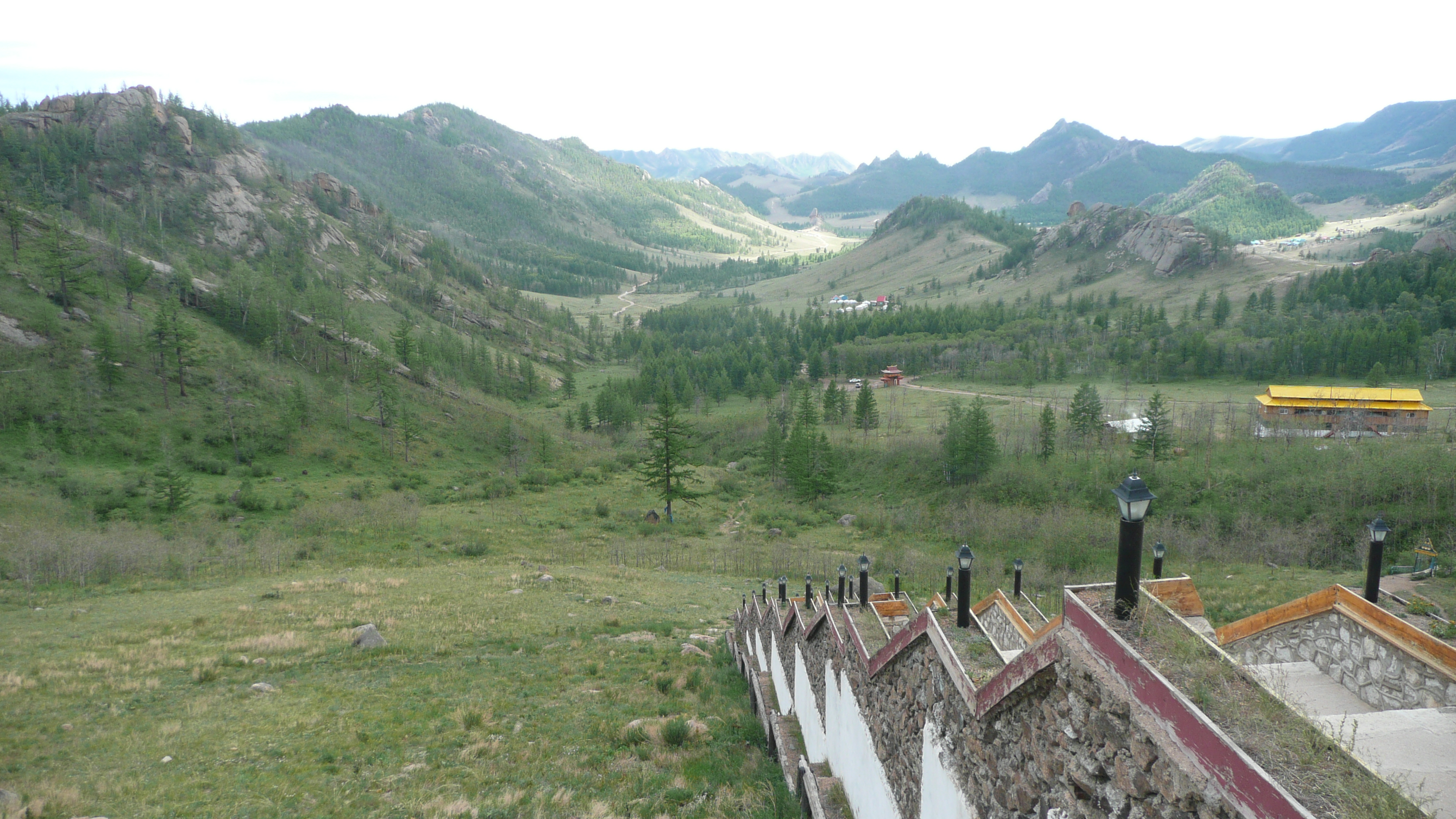 Gorkh-Terelj National Park